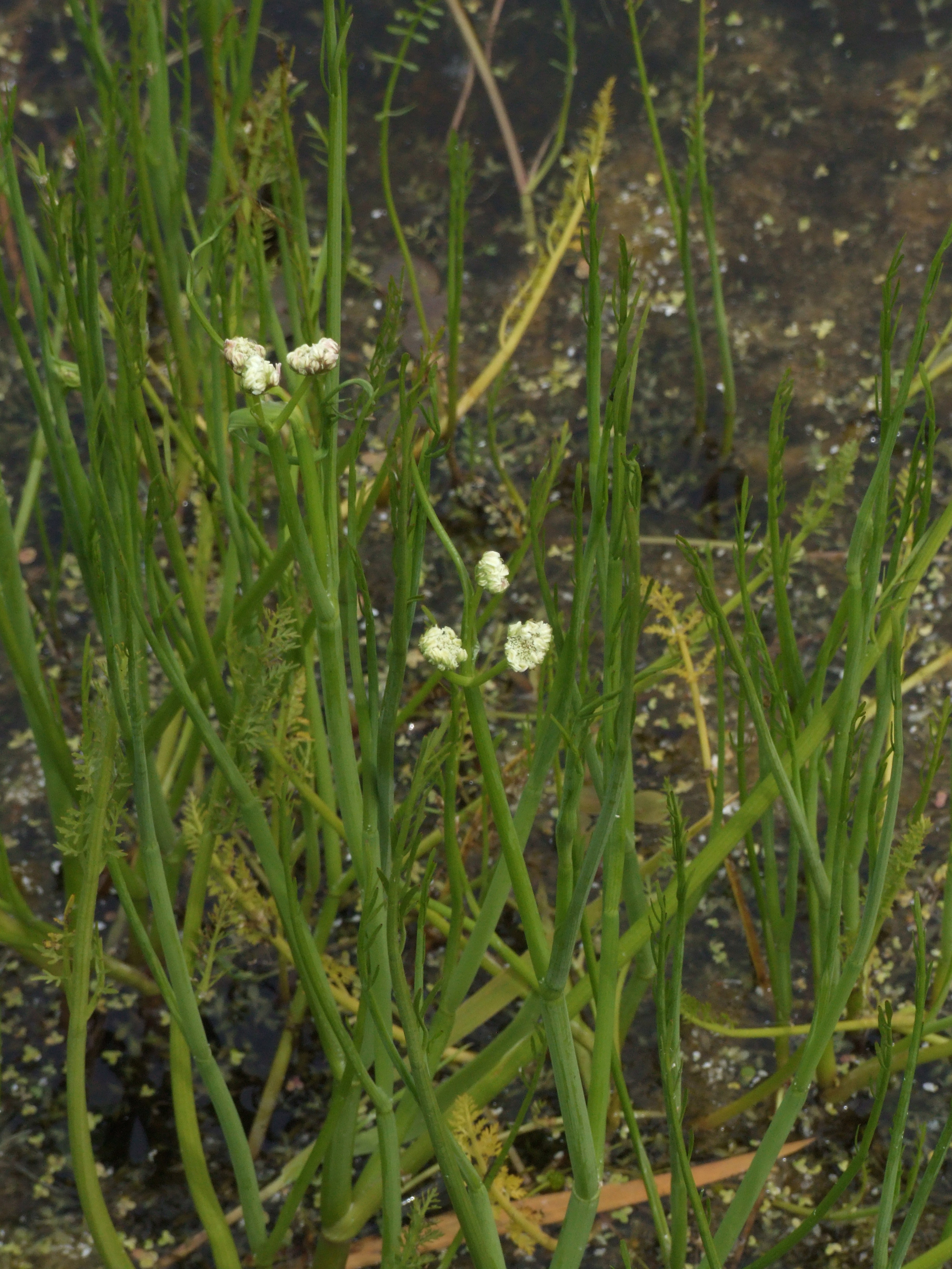 Tubular water dropwort (Oenanthe fistulosa), Kirchwerder, Hamburg, Germany